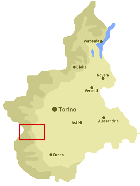 Position of the valley Valle Po